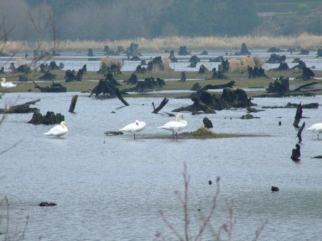 Swans on the Gearagh Picture taken from Butterfly Island